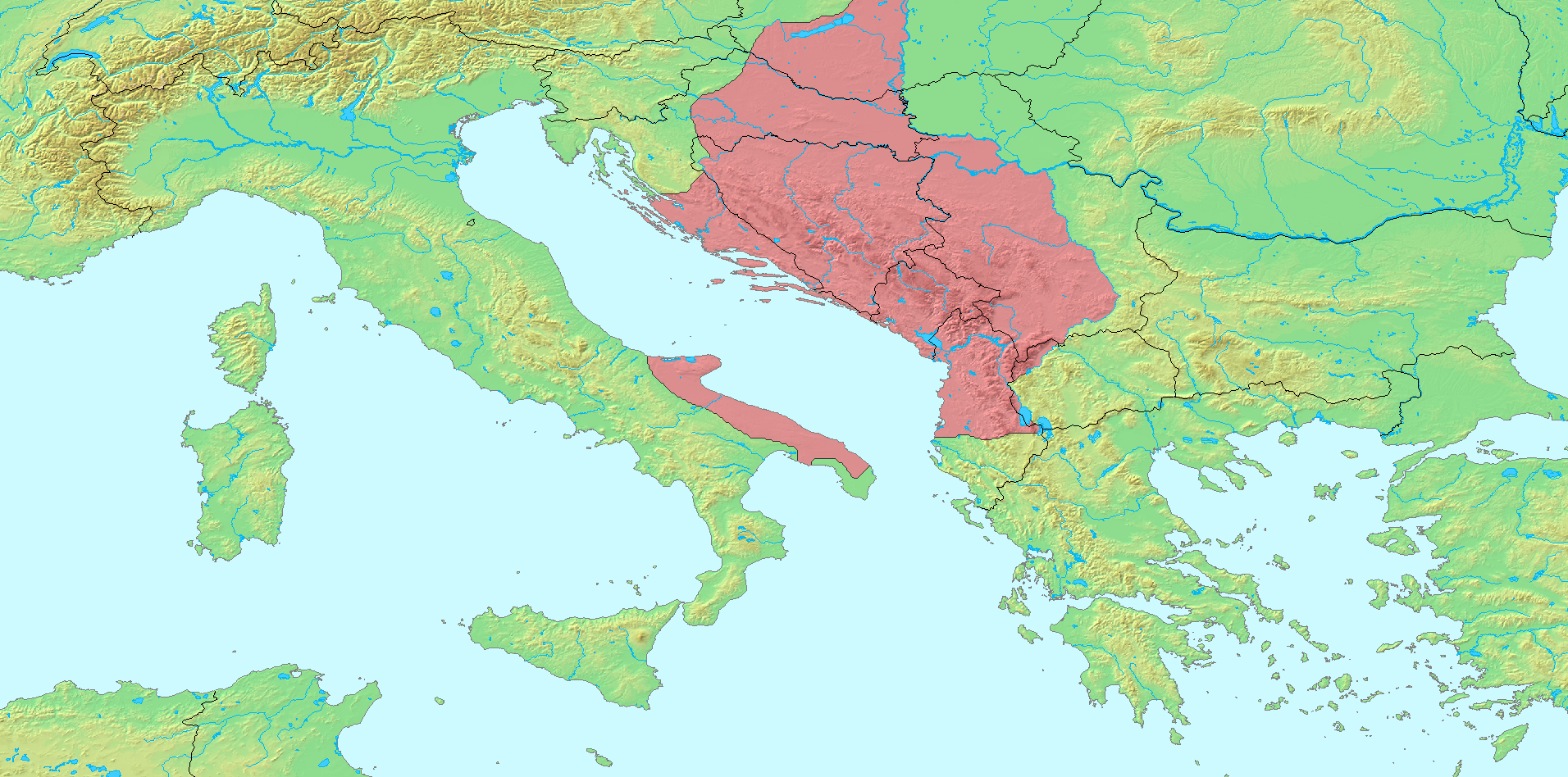 Illyrian languages map